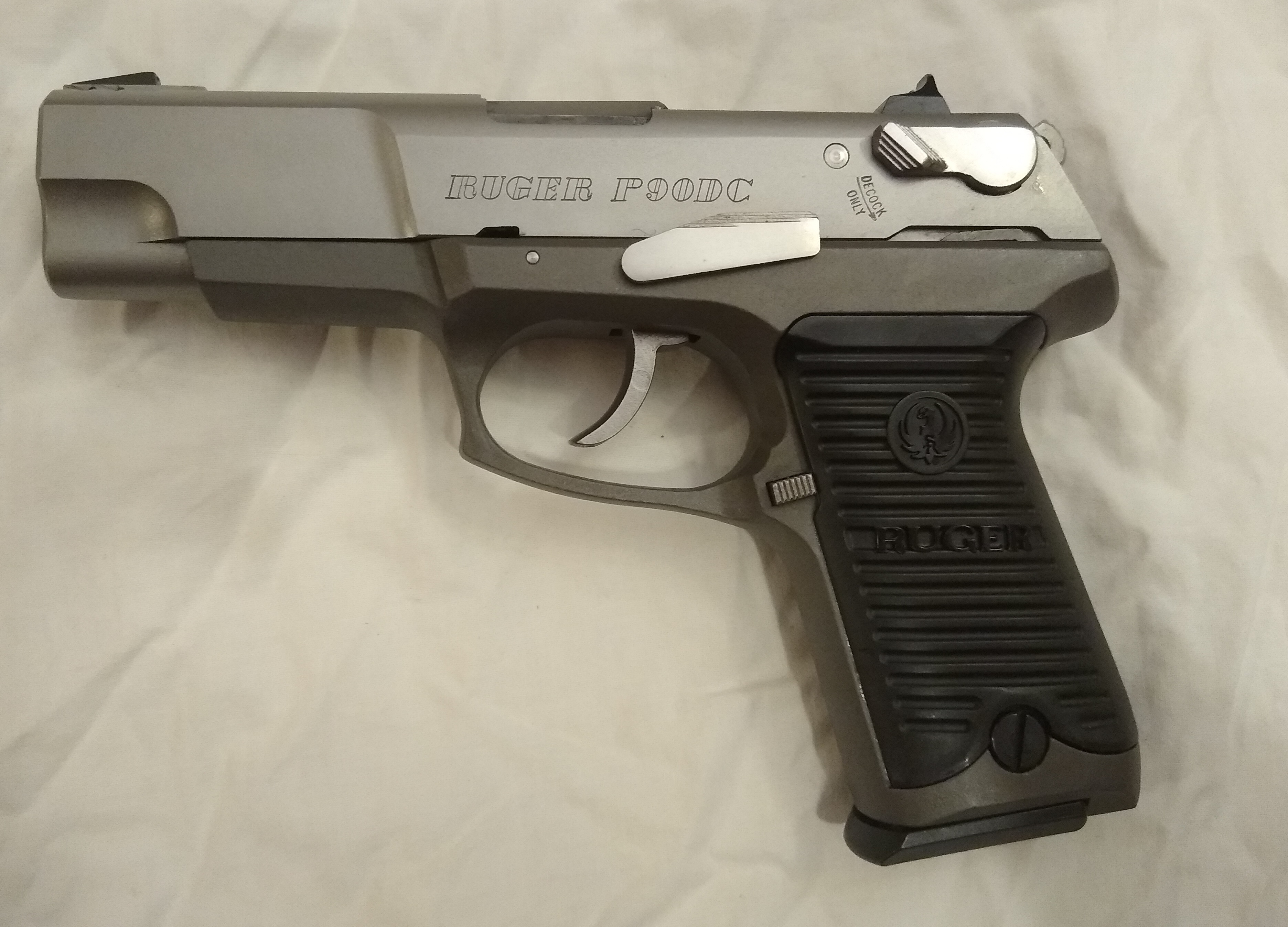 Ruger P90DC (decocker), .45 ACP